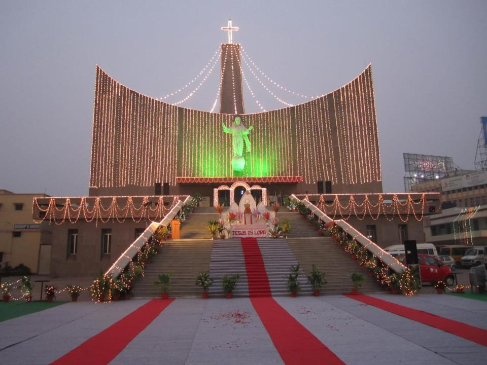 CathedralSchoolLucknow.jpg